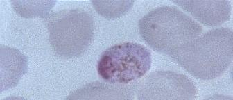 This Giemsa stained slide reveals a Plasmodium malariae gametocyte. The male (microgametocytes) and female (macrogametocytes), are ingested by an Anopheles mosquito during its blood meal. Known as the sporogonic cycle, while in the mosquito's stomach, the microgametes penetrate the macrogametes generating zygotes.